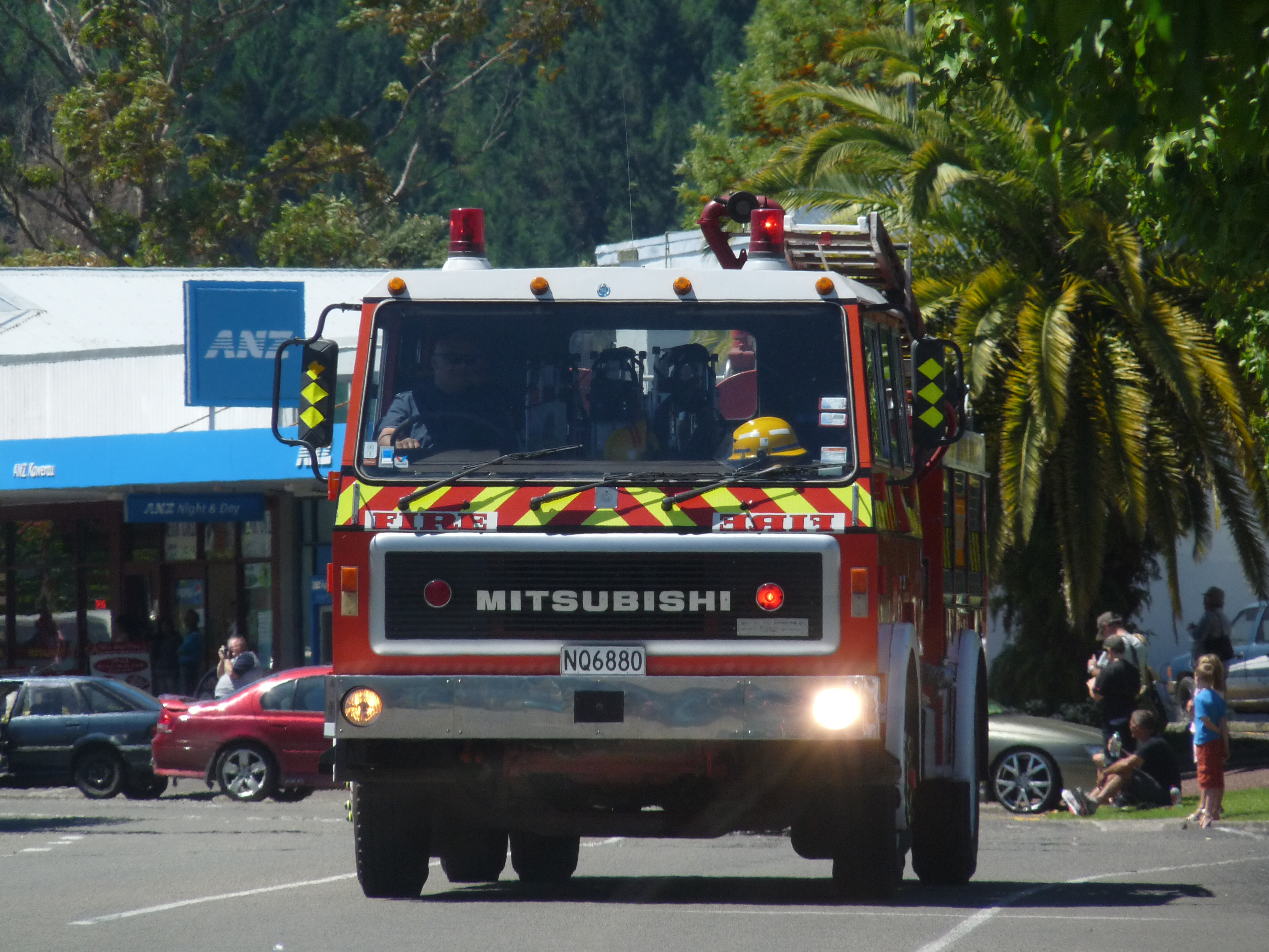 A Mitsubishi New Zealand Fire engine in Kawerau, New Zealand.